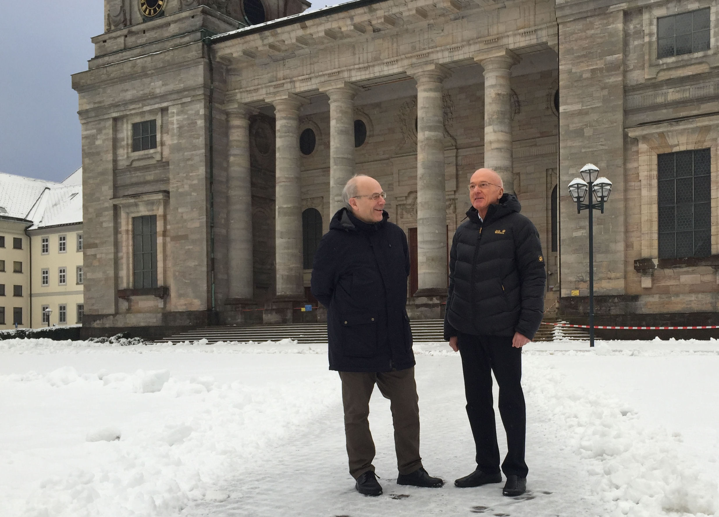 Pater Klaus Mertes and Norbert Denef, netzwerkB